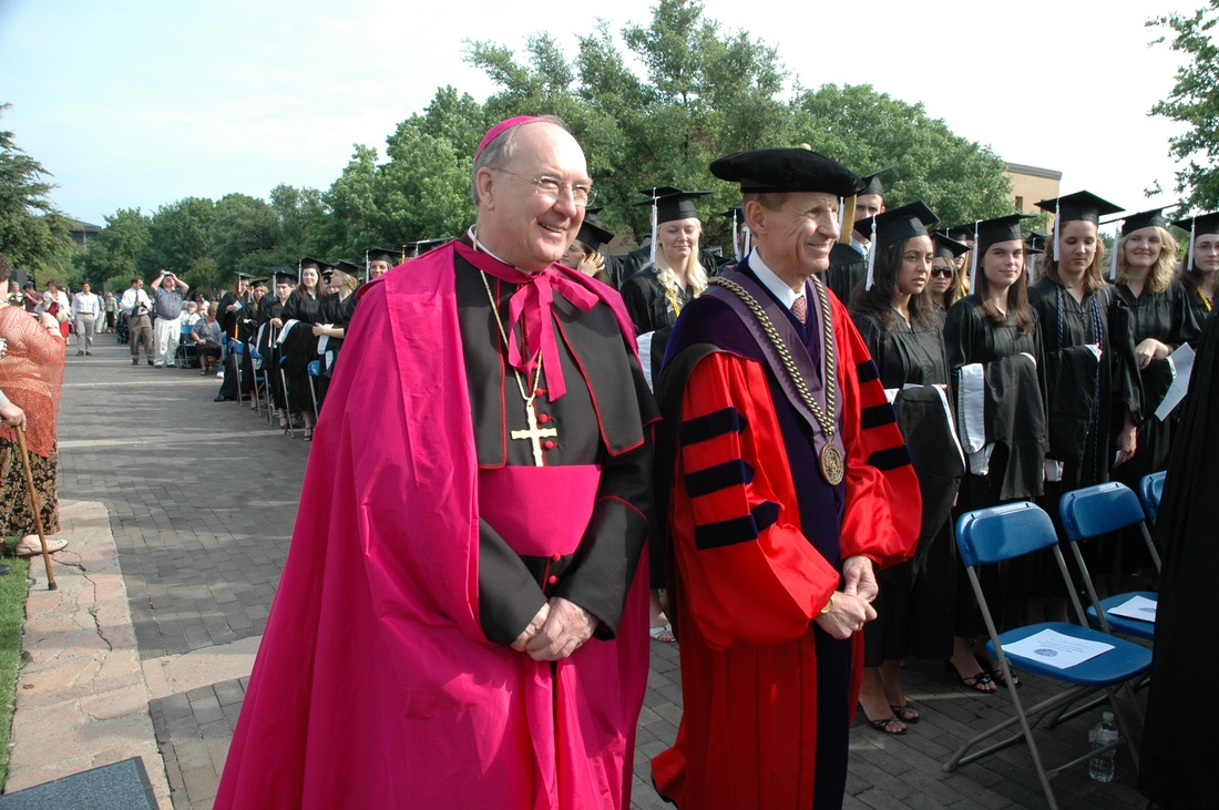 Bishop Kevin Farrell and University President Frank Lazarus at the University of Dallas Graduation in 2007.